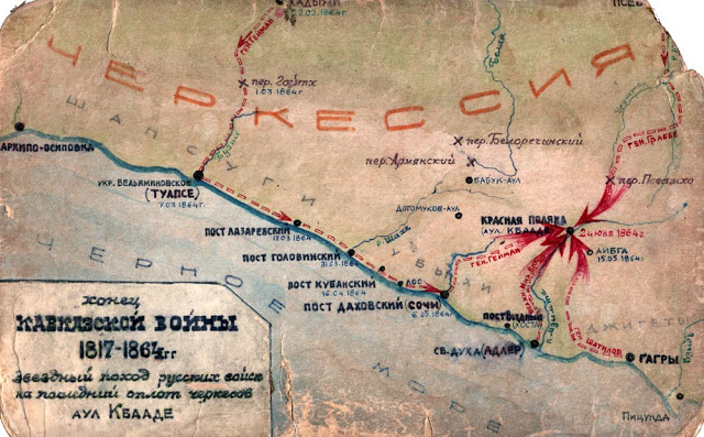 Map of the end of the Caucasian war of 1864.